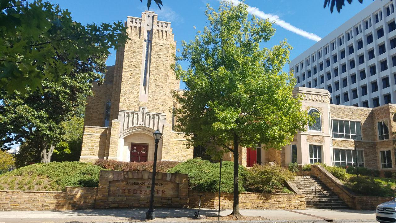 Lutheran Church of the Redeemer at the intersection of Peachtree Street and Fourth Street in Atlanta, Georgia.